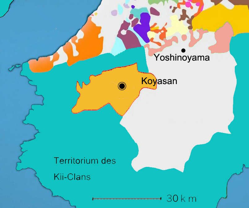 Territory of the Temple Koyasan (Kii-Peninsula, Japan) during the Edo-Period.